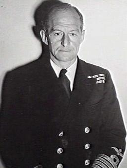 Portrait of Admiral Sir Edmund Anstice